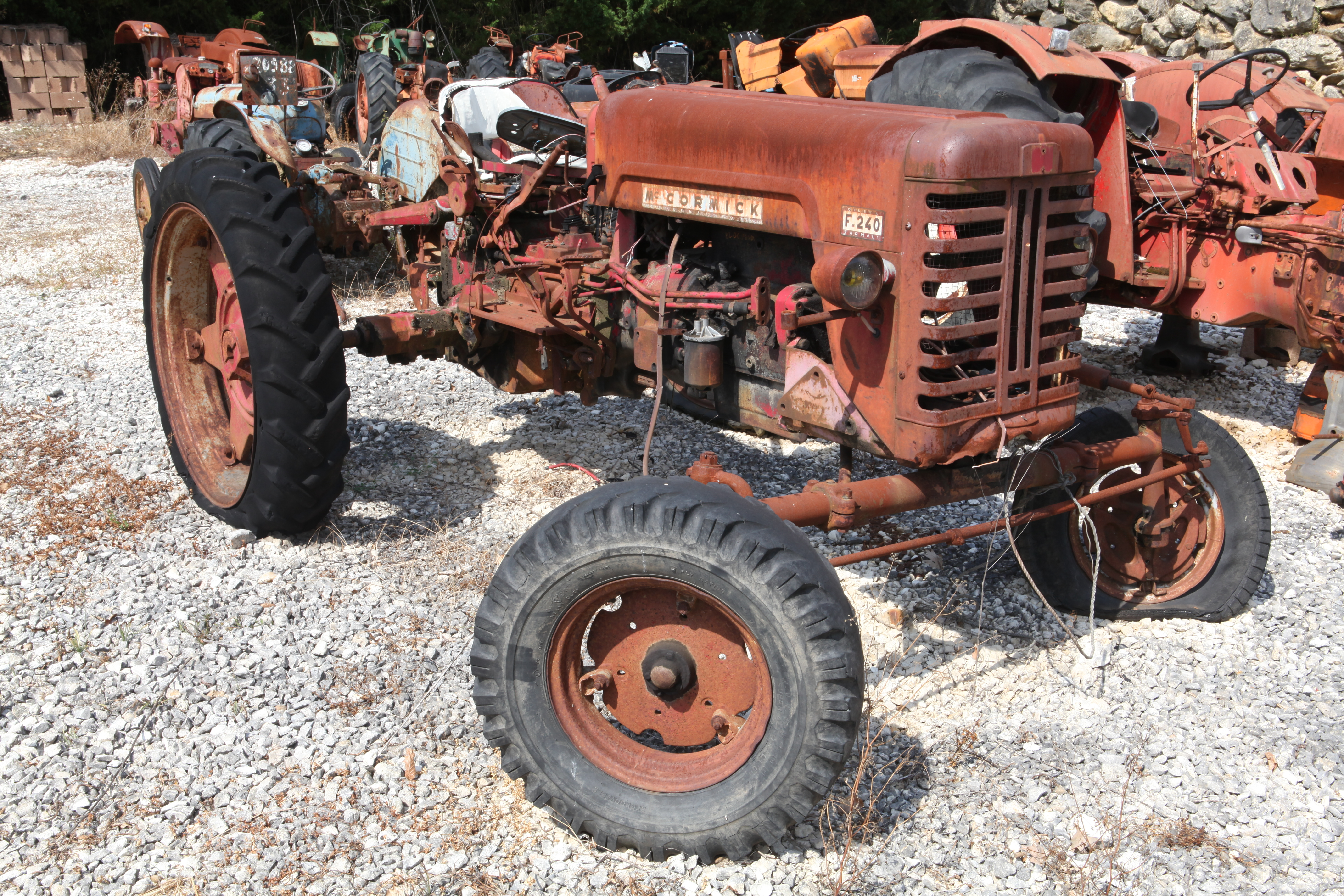 McCormick F 240 tractor